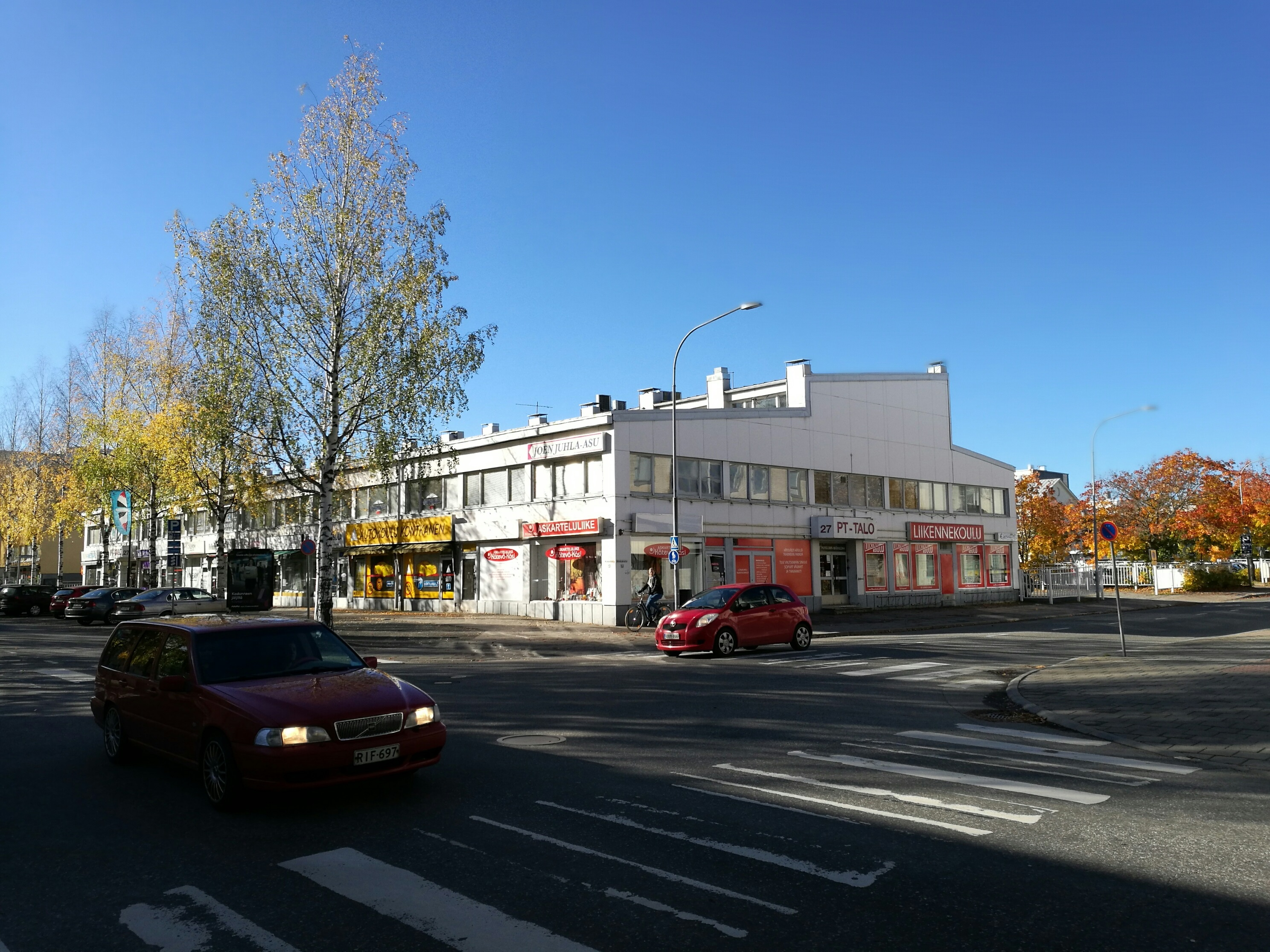 Niskakatu building, so called PT-house, Pienteollisuustalo (1957)